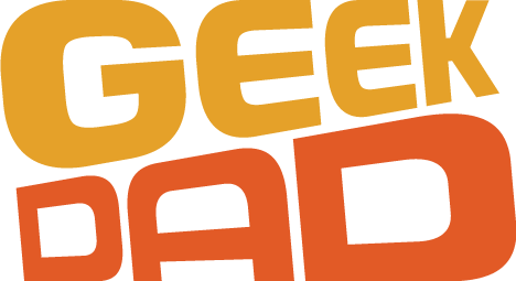 Logo for the website .